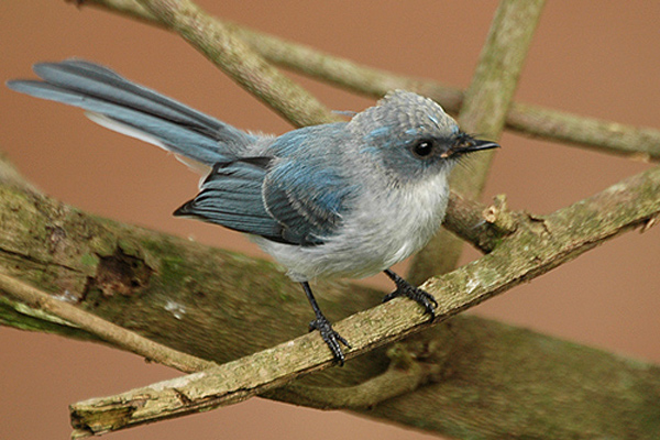 Uganda White-tailed Blue Flycatcher (Elminia albicauda) Buhoma, Bwindi NP Jan 2006